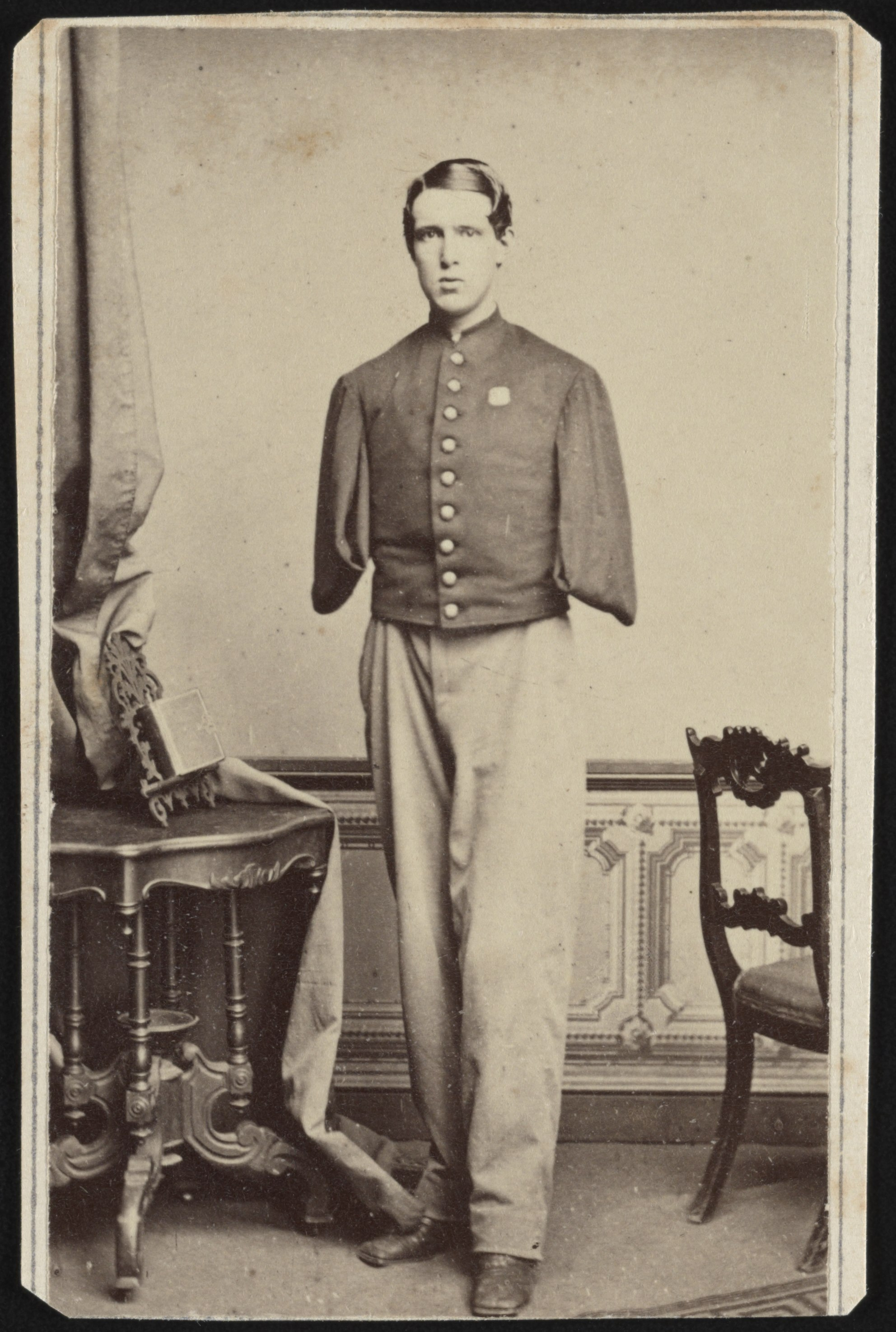 Title: Sergeant Alfred A. Stratton of Co. G, 147th New York Infantry Regiment, with amputated arms] / Fredricks & Co., 179 Fifth Avenue, Madison Square, New York Abstract/medium: 1 photograph : albumen print on card mount ; mount 10 x 6 cm (carte de visite format)